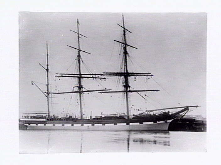 Creator unknown. Black and white photograph of Loch Sloy. Item held by State Library of Victoria as part of Malcolm Brodie shipping collection. Image number: H91.108/2633. Format: negative: glass; 12.1 x 16.6 cm (half plate). Photograph taken prior to 1899.